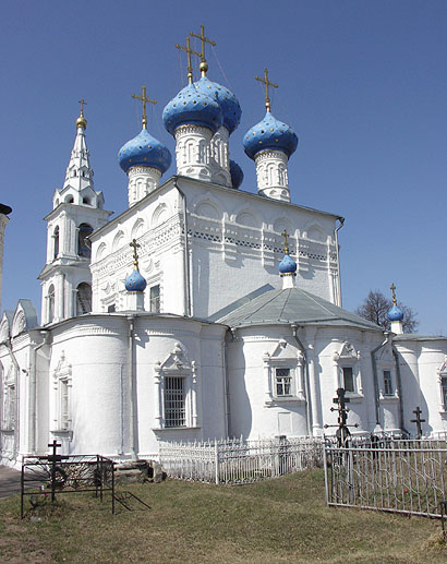 Church of St. Nicholas in Pushkino near Moscow (1692-94).